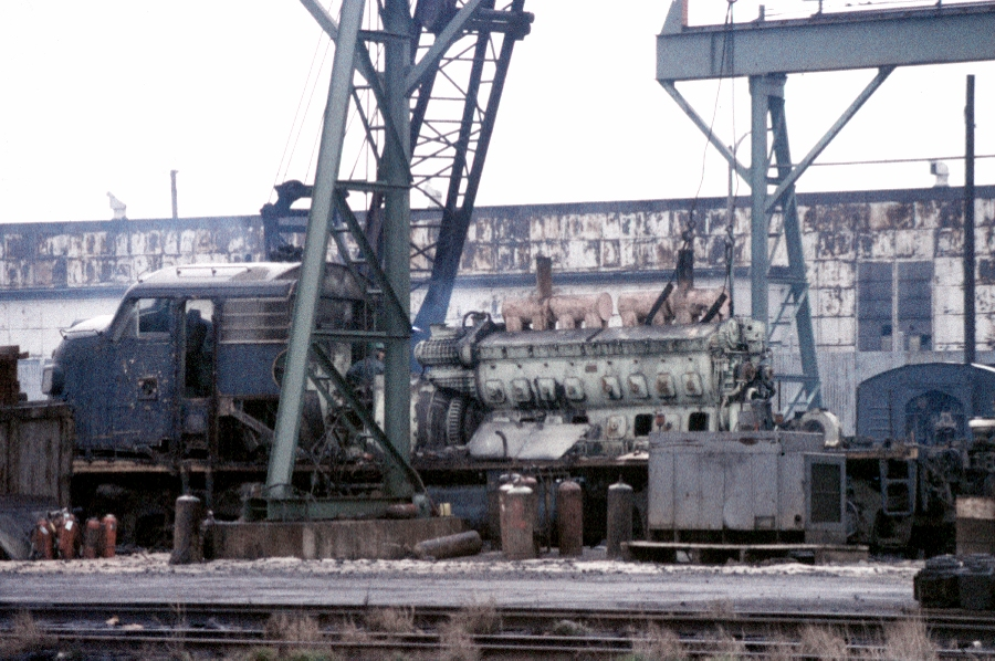 B&O F7 under the cutting torch - Naporano Iron & Scrap, Newark, NJ